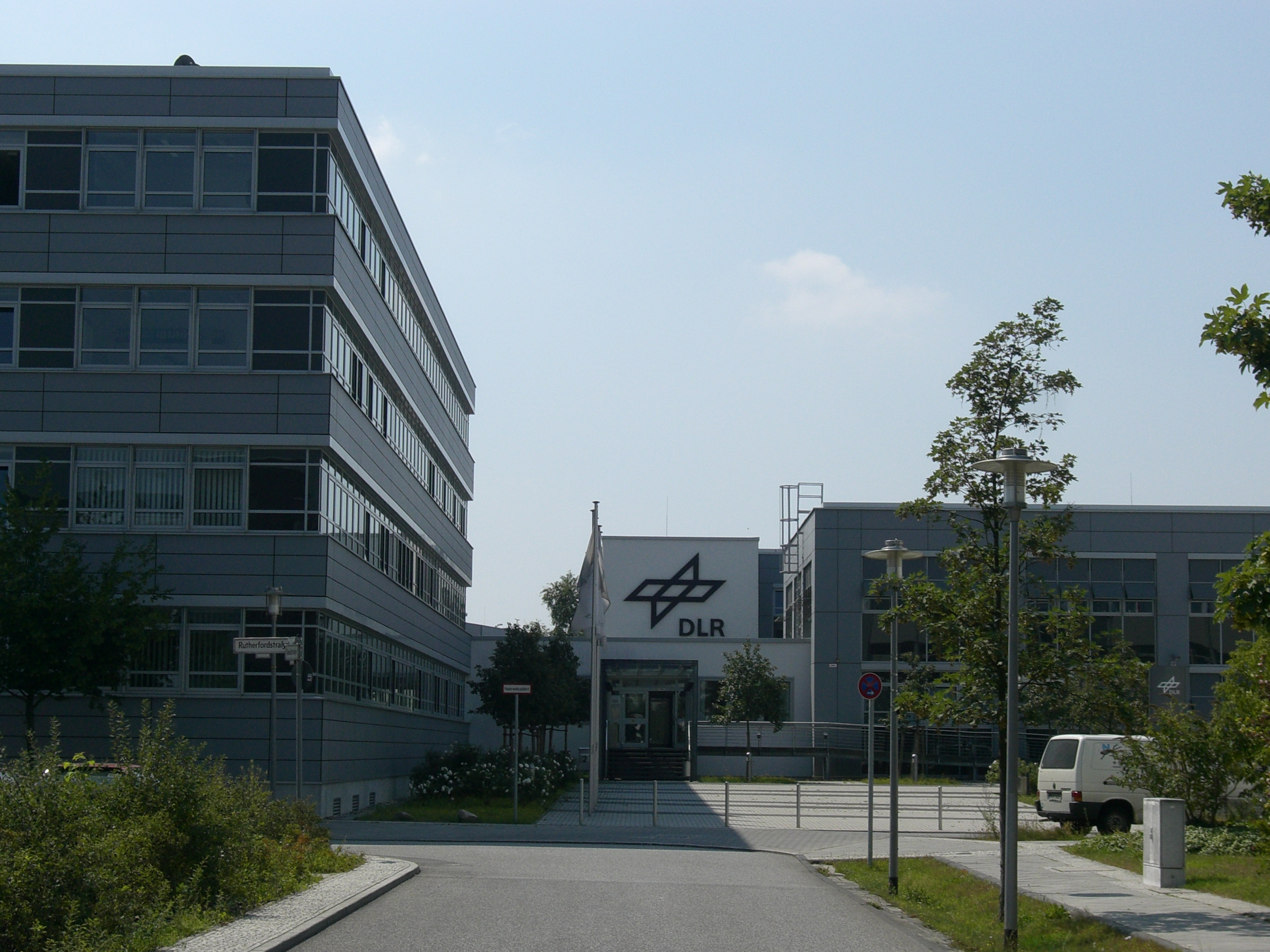 The German Aerospace Center (DLR) in Adlershof, Berlin